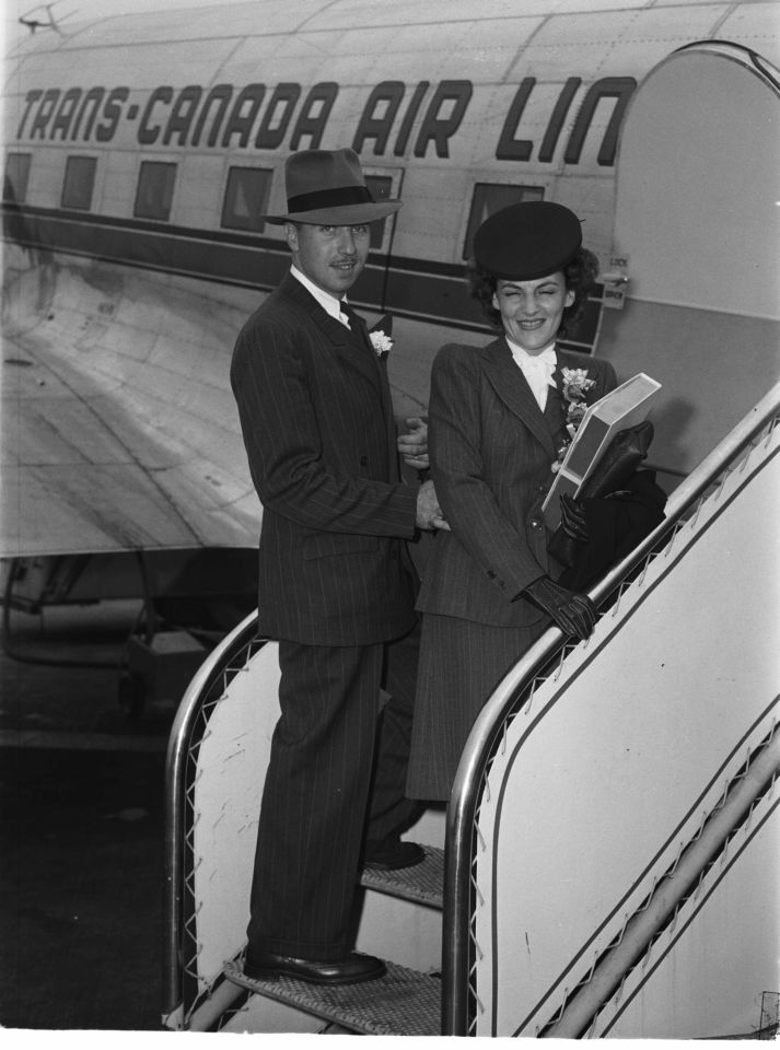 The newlyweds, Ms. Yvette Villebon and her husband are on the steps of the staircase of a plane of Trans-Canada Air Lines.